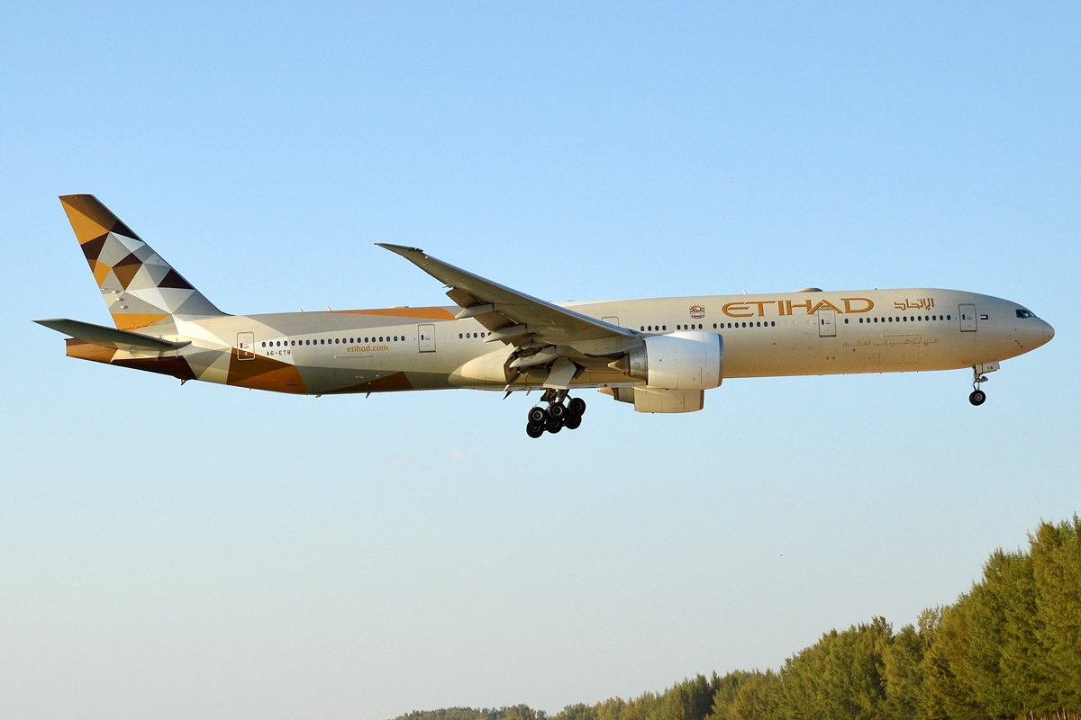 Etihad Airways, A6-ETB, Boeing 777-3FX ER